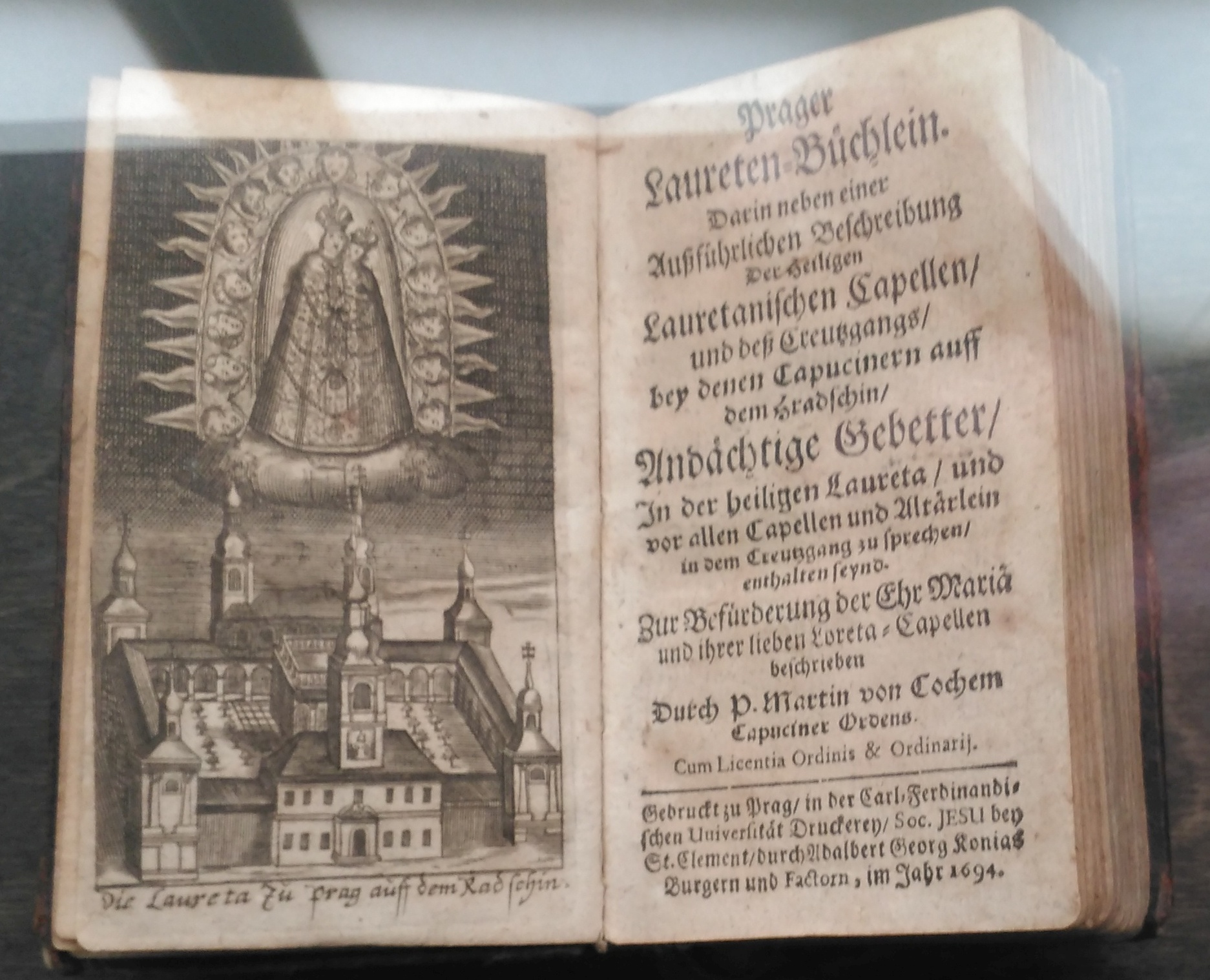 Title page and engraving of the book about Prague Loreto by Capuchin Friar Martin of Cochem, printed in Prague in 1694.